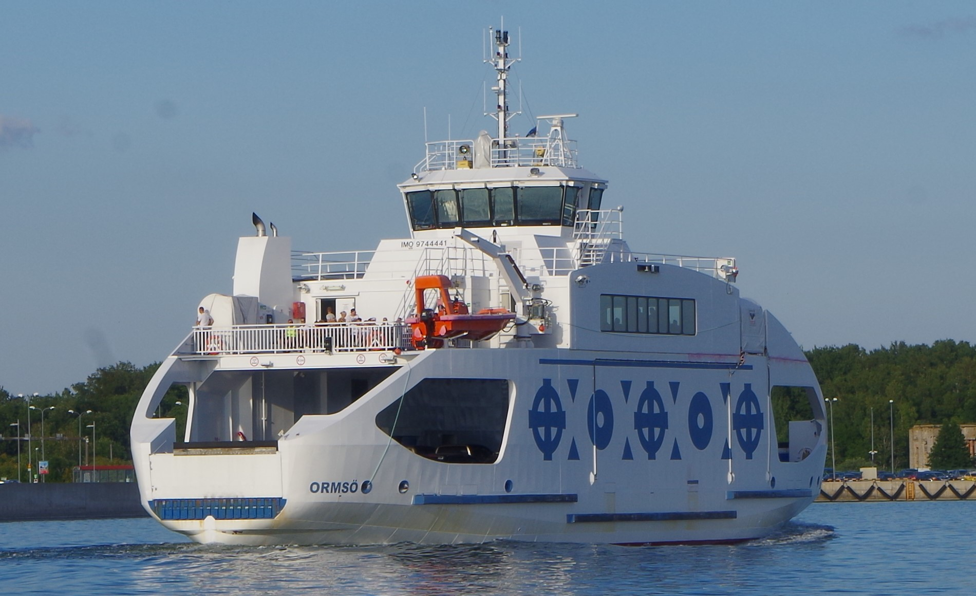 Ferry Ormsö entering Rohuküla port on July 21st 2019